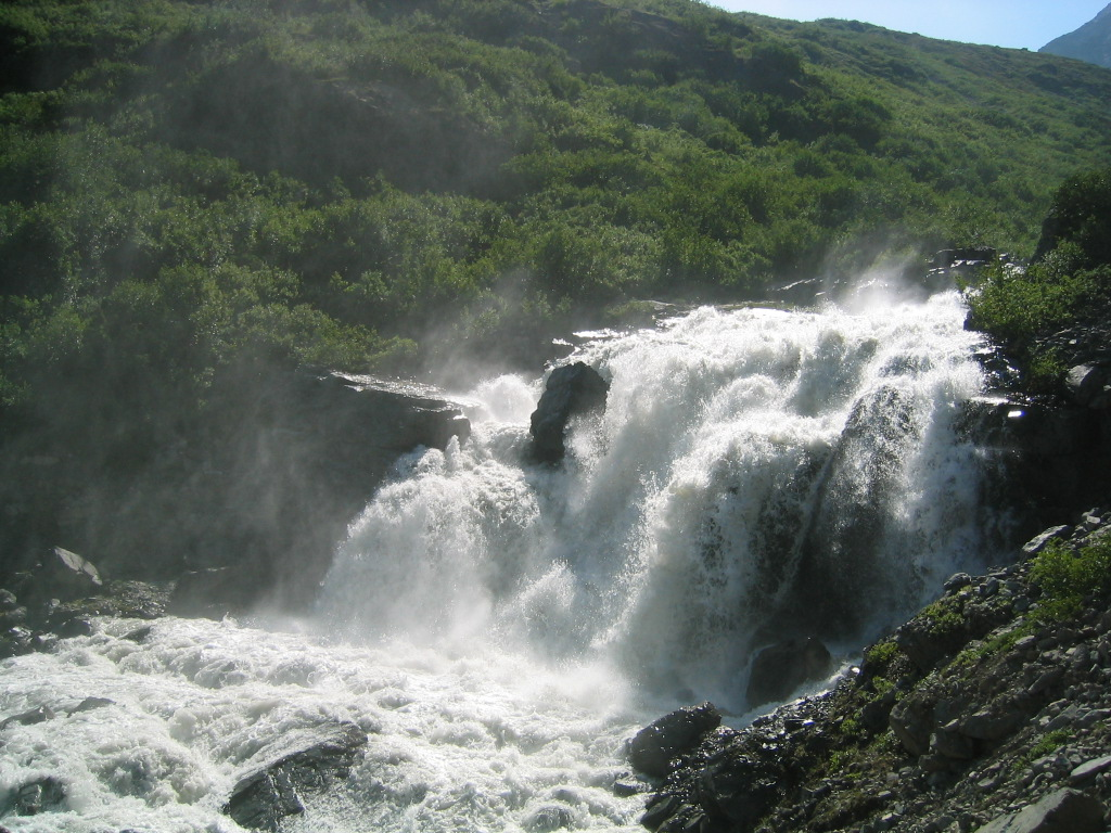 Top cataract of Klehini Falls